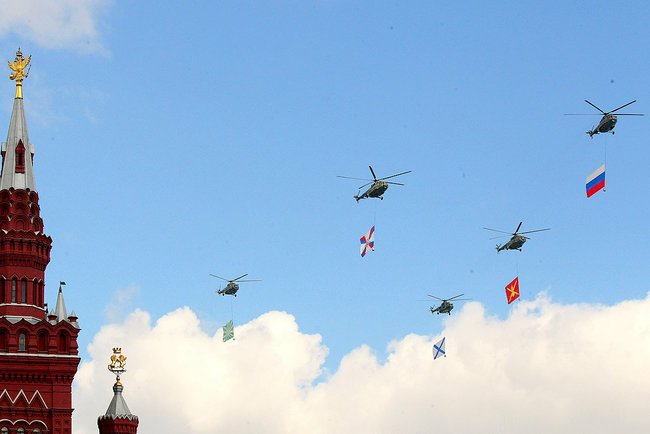 Die Militärparade zum 66-jährigen Jubiläum des Sieges in Moskau im Jahr 2011.